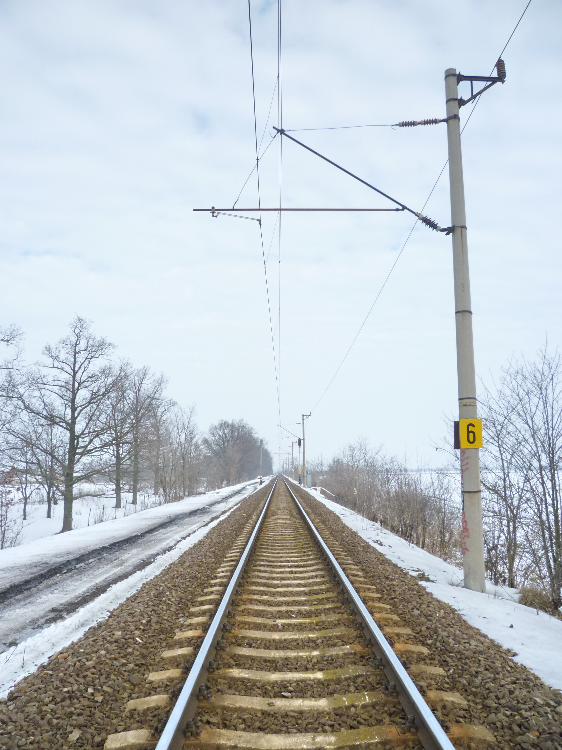 Overhead catenary on the Budapest–Kelebia railway line between Dömsöd and Kunszentmiklós-Tass stations, Hungary. (25kV, 50Hz)